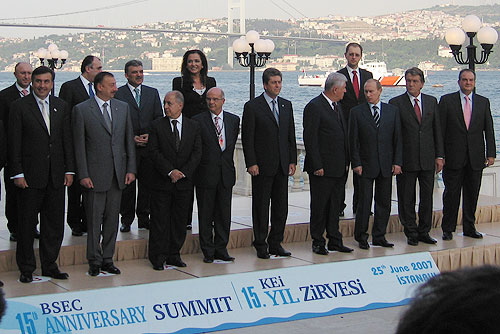 Leaders at Black Sea Economic Cooperation Organisation Summit in Istanbul, Turkey.